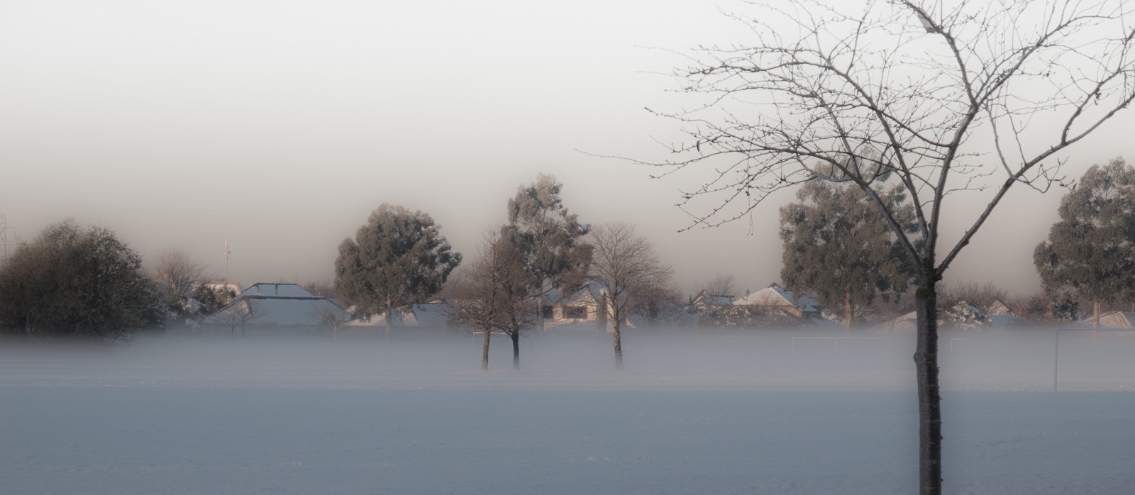 500px provided description: Foggy winter morning in Avonhead Park. [#park ,#trees ,#fog]